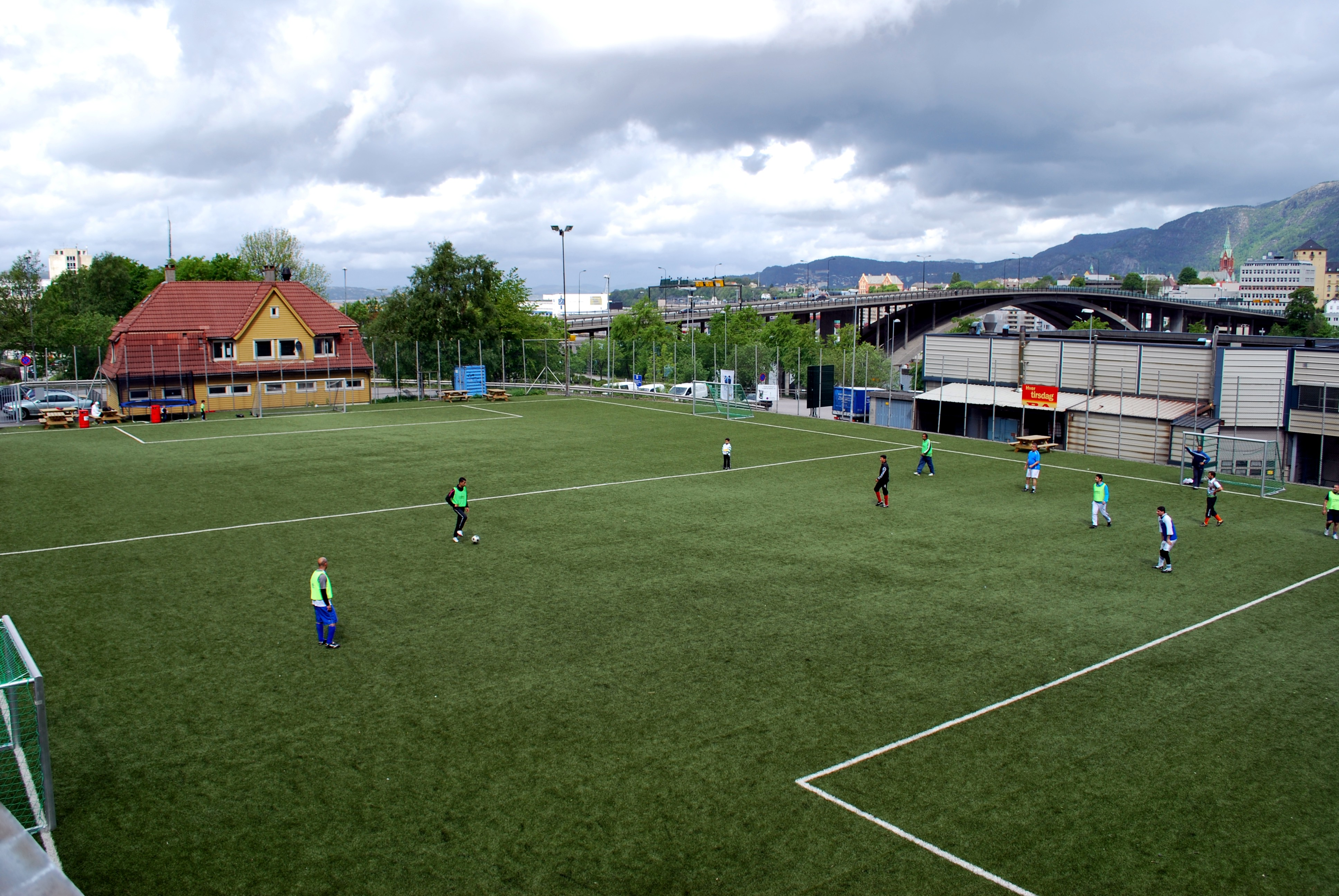 Football (soccer) field at Gyldenpris in Bergen.